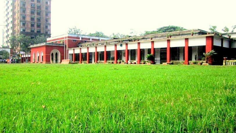 The Beauty of Mymensingh Zilla School